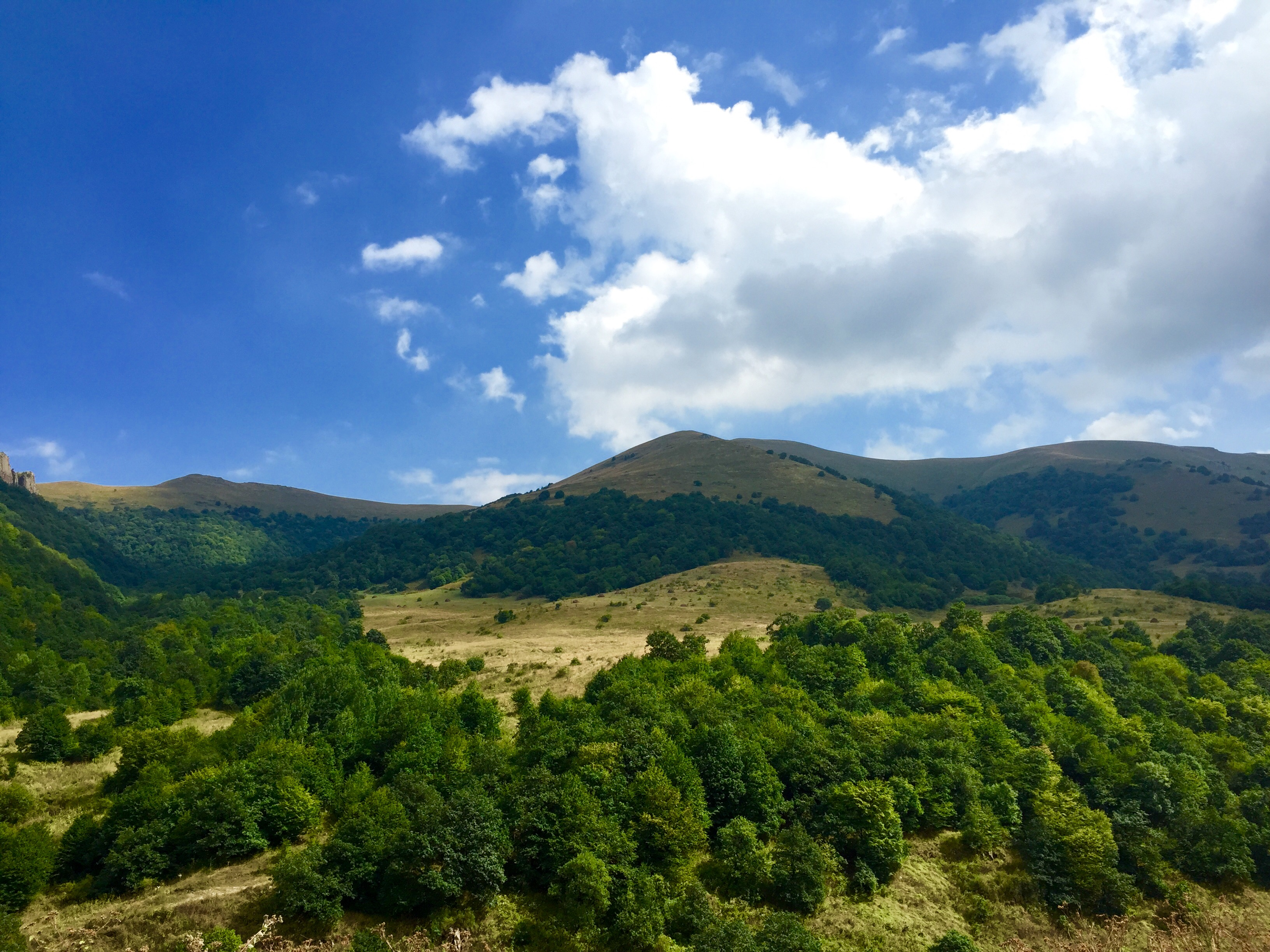 Օձունի բնաշխարհը